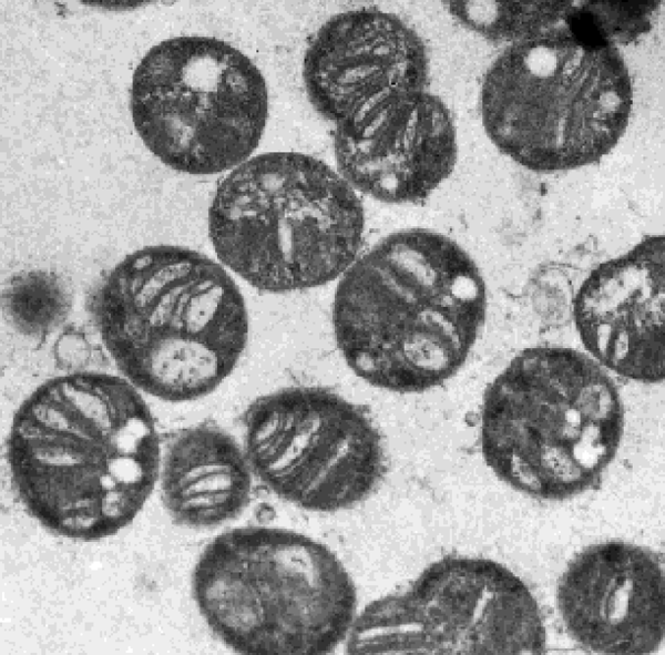 Methylococcus capsulatus cultured in the presence of a high concentration of copper.